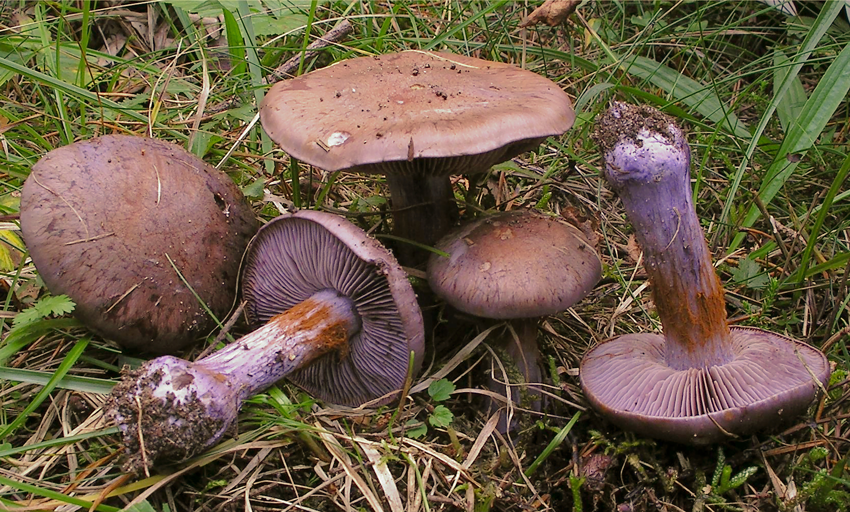 Fruit bodies of the fungus Cortinarius purpurascens. Specimens photographed in Lojsta, Gotland, Sweden.